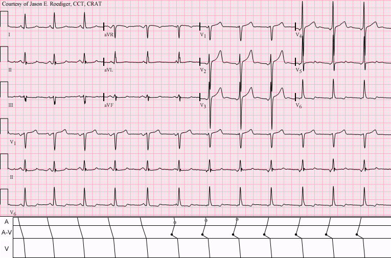 Normal sinus rhythm; atrial fusion (beats 6,7, and 8); accelerated junctional rhythm with short P'-R interval and retrograde conduction to the atria; (see laddergram).